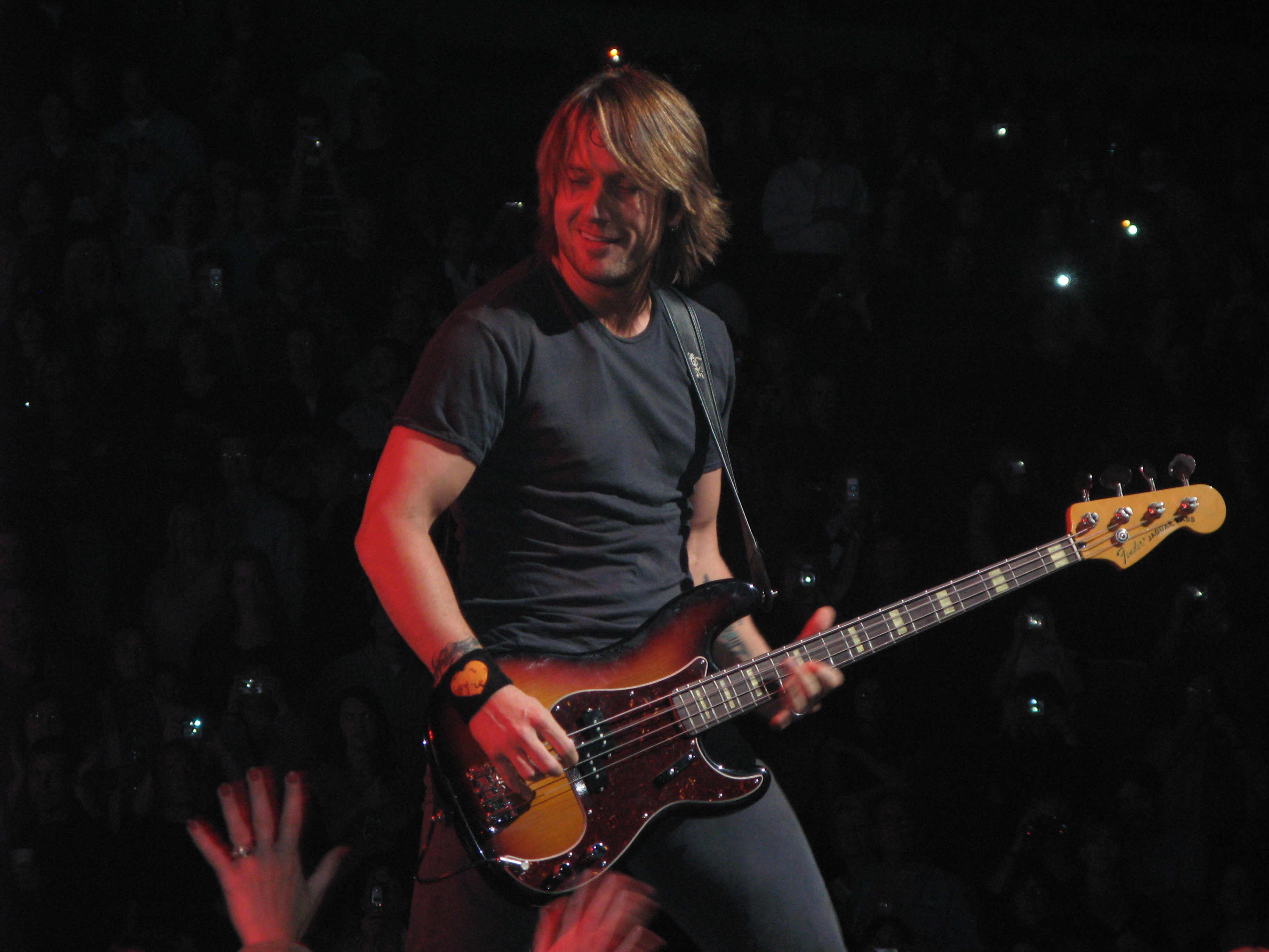 This is a picture I took November 3, 2007 at a Keith Urban concert at The Palace of Auburn Hills.